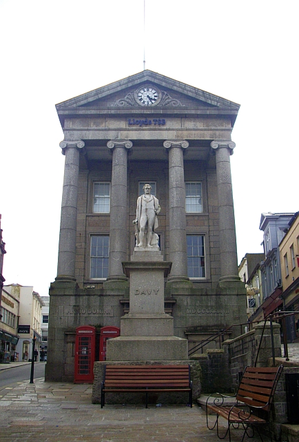 Sir Humphry Davy The statue was erected in 1872 to Penzance's most famous son. Davy was born here in 1778 and is known for his work on the miners' safety lamp, but he was a brilliant scientist in many fields. It was he who discovered the pain relieving effects of nitrous oxide. By 24 he was a professor of chemistry at the Royal Institution. He discovered 6 new elements including potassium and sodium. He died in 1829. The market hall behind bears the date 1837